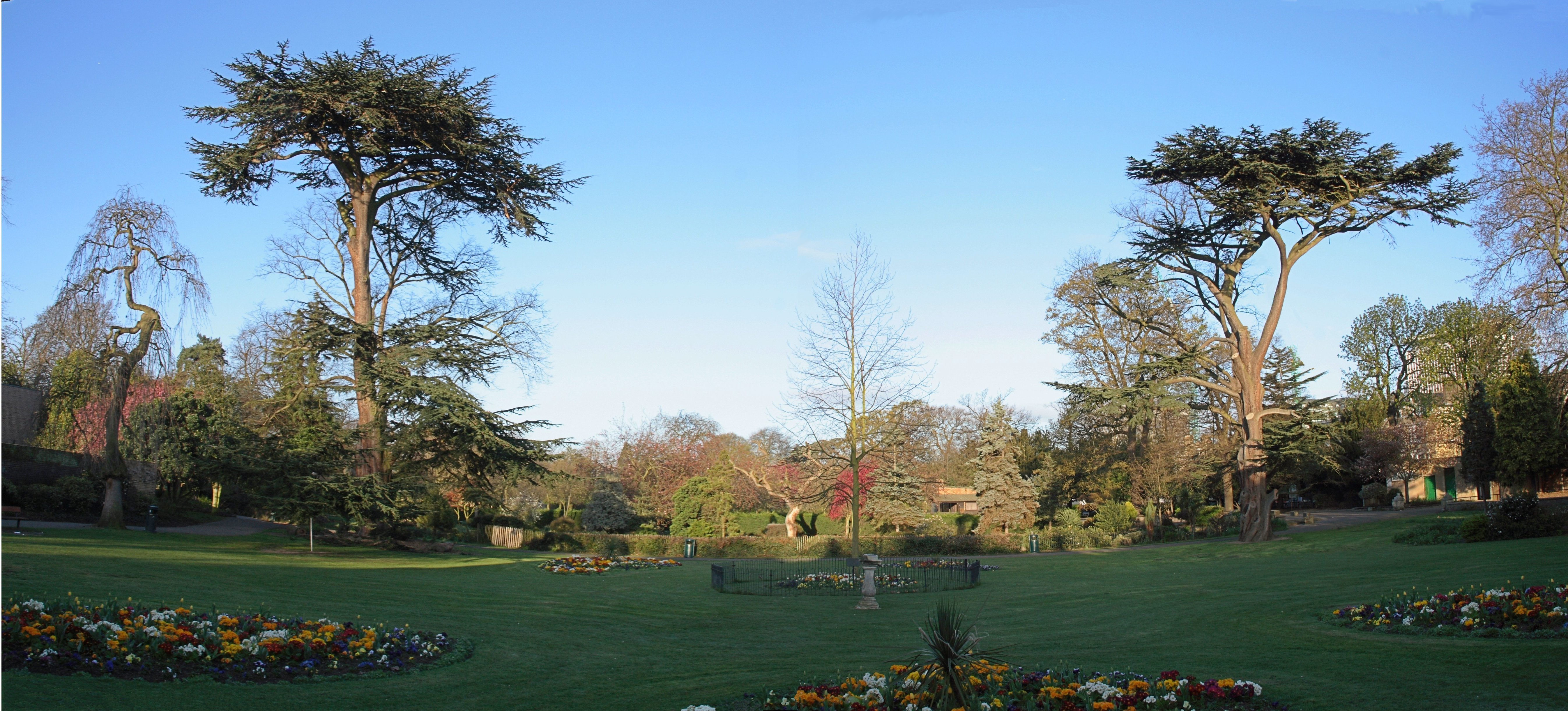 Immediate Back garden of Pitzhanger Manor looking west. Beyond is the rest of Walpole Park.